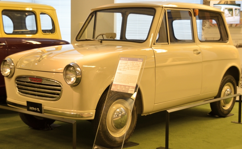 Suzuki Suzulight TL